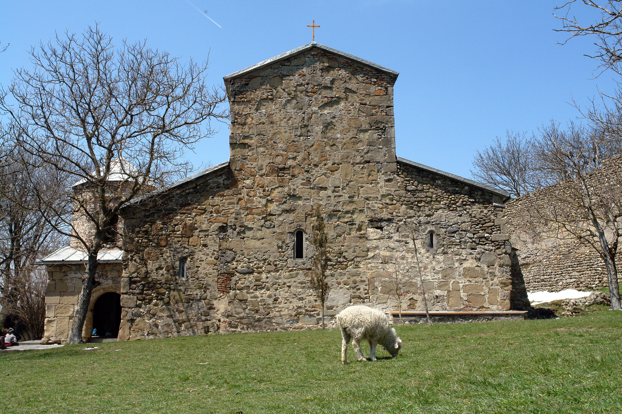 Zedazeni Monastery in Georgia